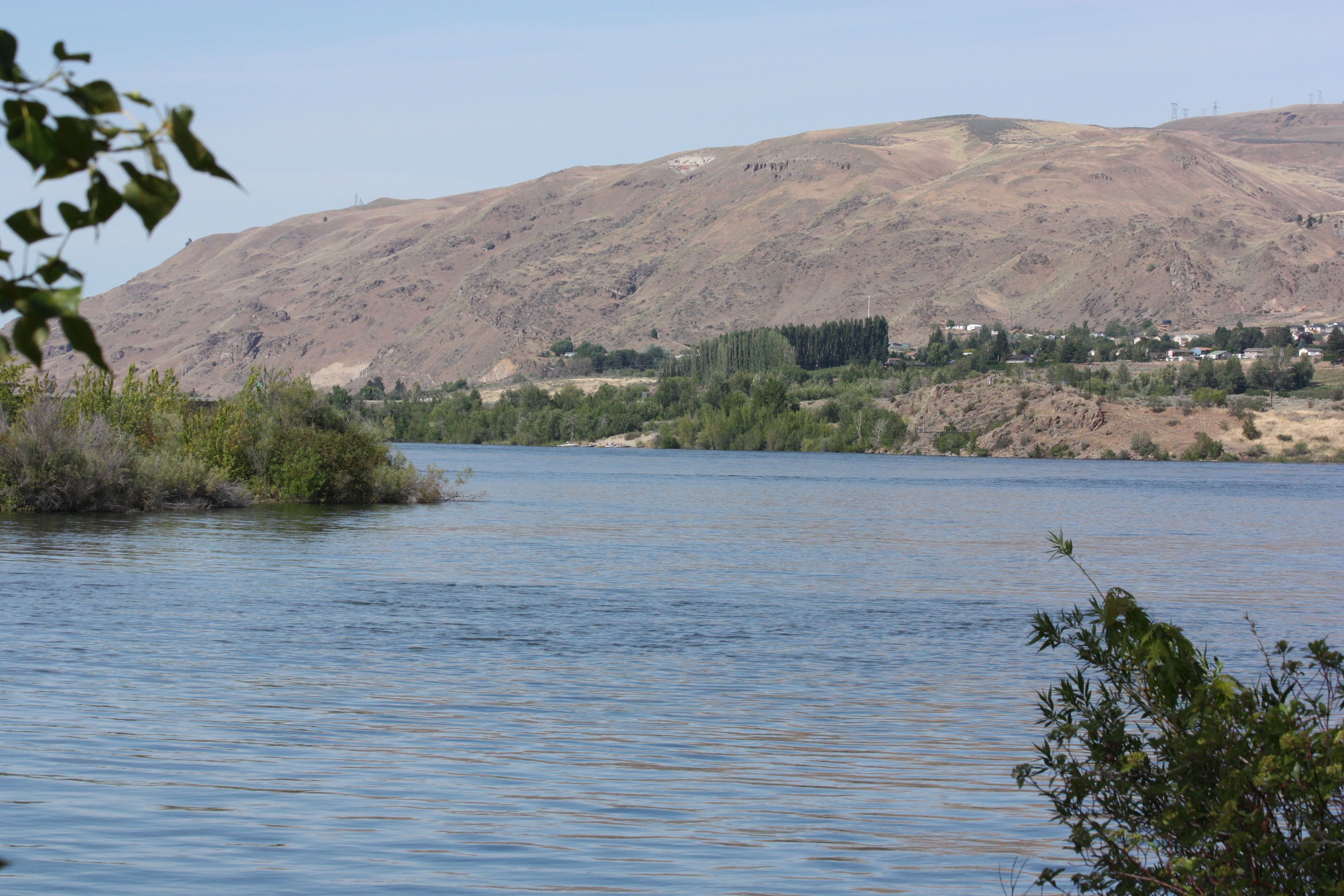 Rock Island Pool of the Columbia River at its confluence with the Wenatchee River Viewpoint location: Apple Capitol Loop Trail, Wenatchee Confluence State Park Viewpoint elevation: 197 meter (646 ft) View direction: Northeast Location source: Garmin GPSmap 60CSx Location Datum: WGS84